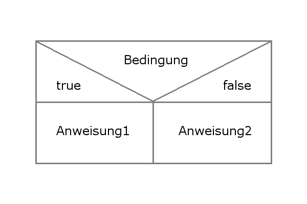 Two-sided selection (if-else statement)